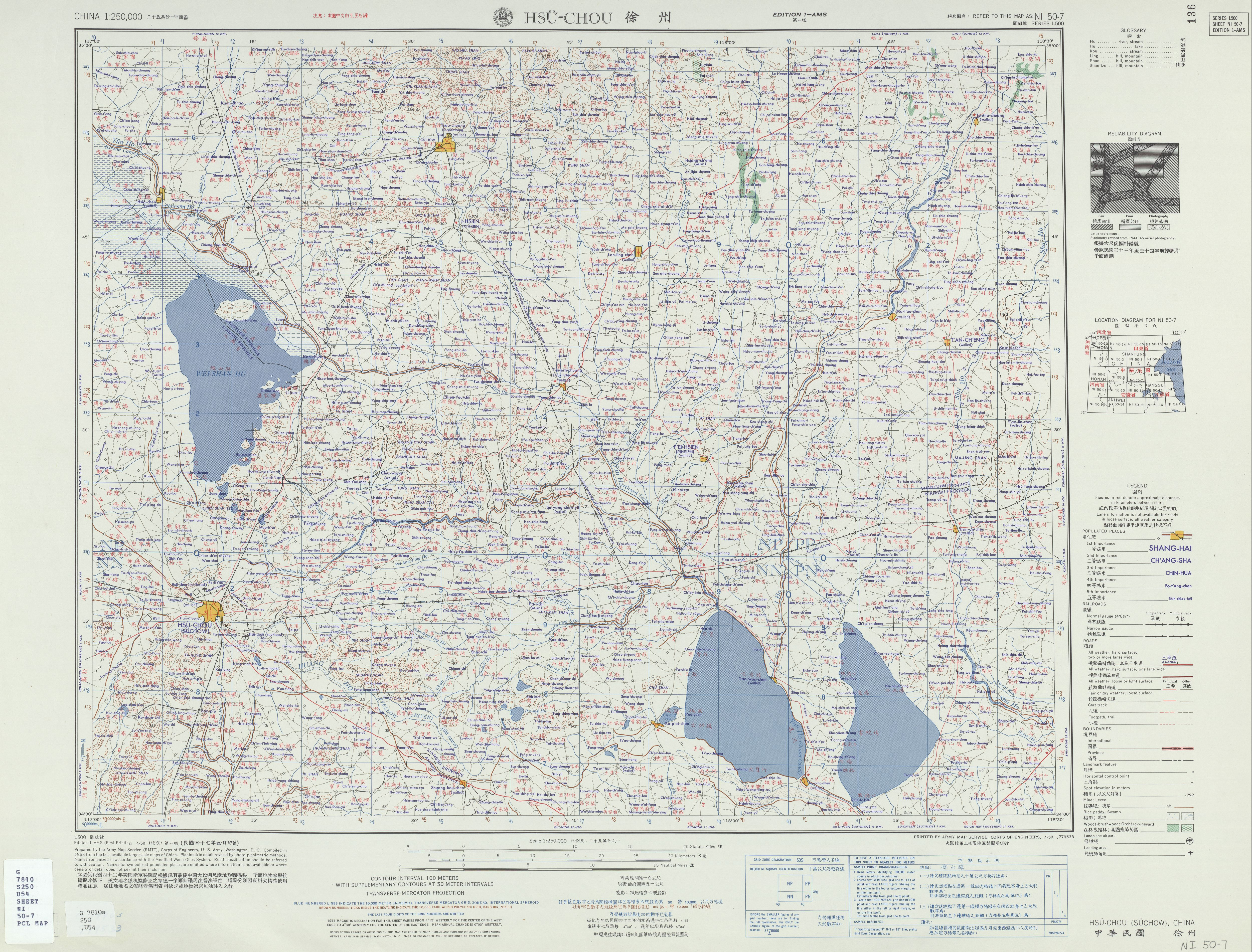 China AMS Topographic Maps